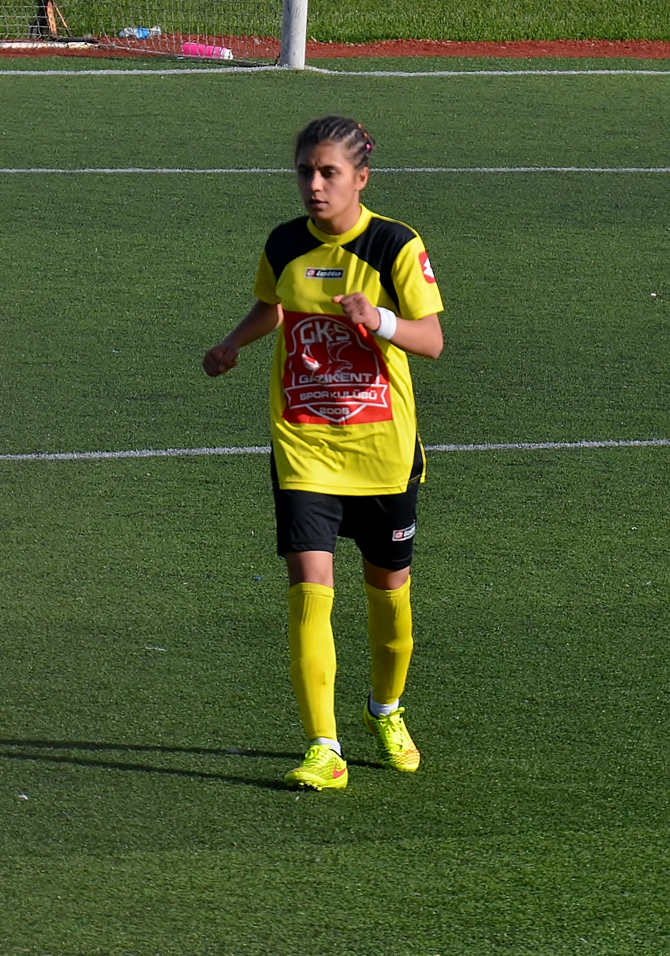 Zelal Baturay playing for Gazikentspor in the 2014-15 away match against Ataşehir Belediyespor.